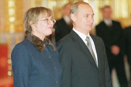 THE KREMLIN, MOSCOW. With Ambassador of the Republic of Estonia Karin Jaani.